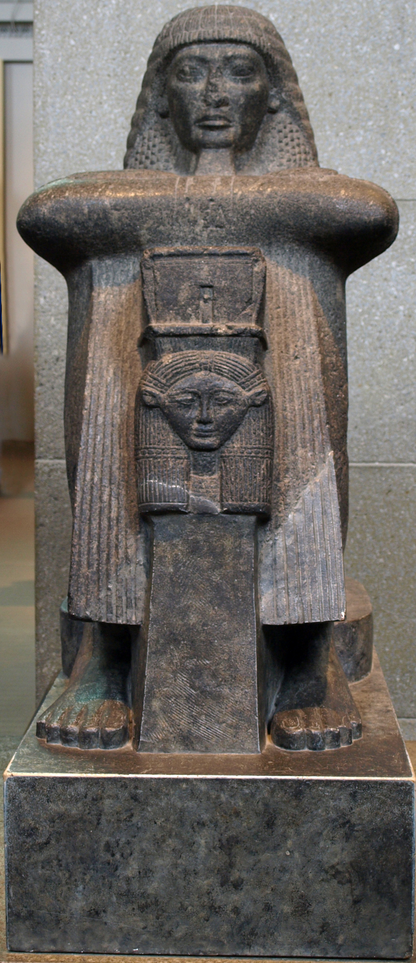 Granite statue of Roy, who was a High Priest of Amun during the final years in the reign of Ramesses II up until the time of Sethos II. His hands rest upon a Hathor-headed sistrum. Originally from Thebes, probably from the Temple of Karnak. 19th dynasty, circa 1220 BC. EA 81.